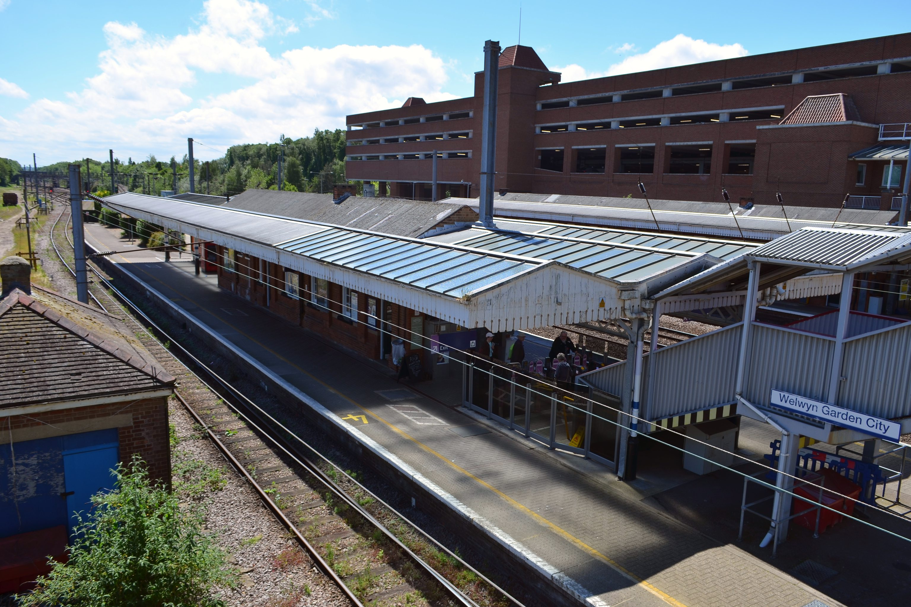 Welwyn Garden City railway station viewed from the footbridge to Broadwater Road in May 2017.